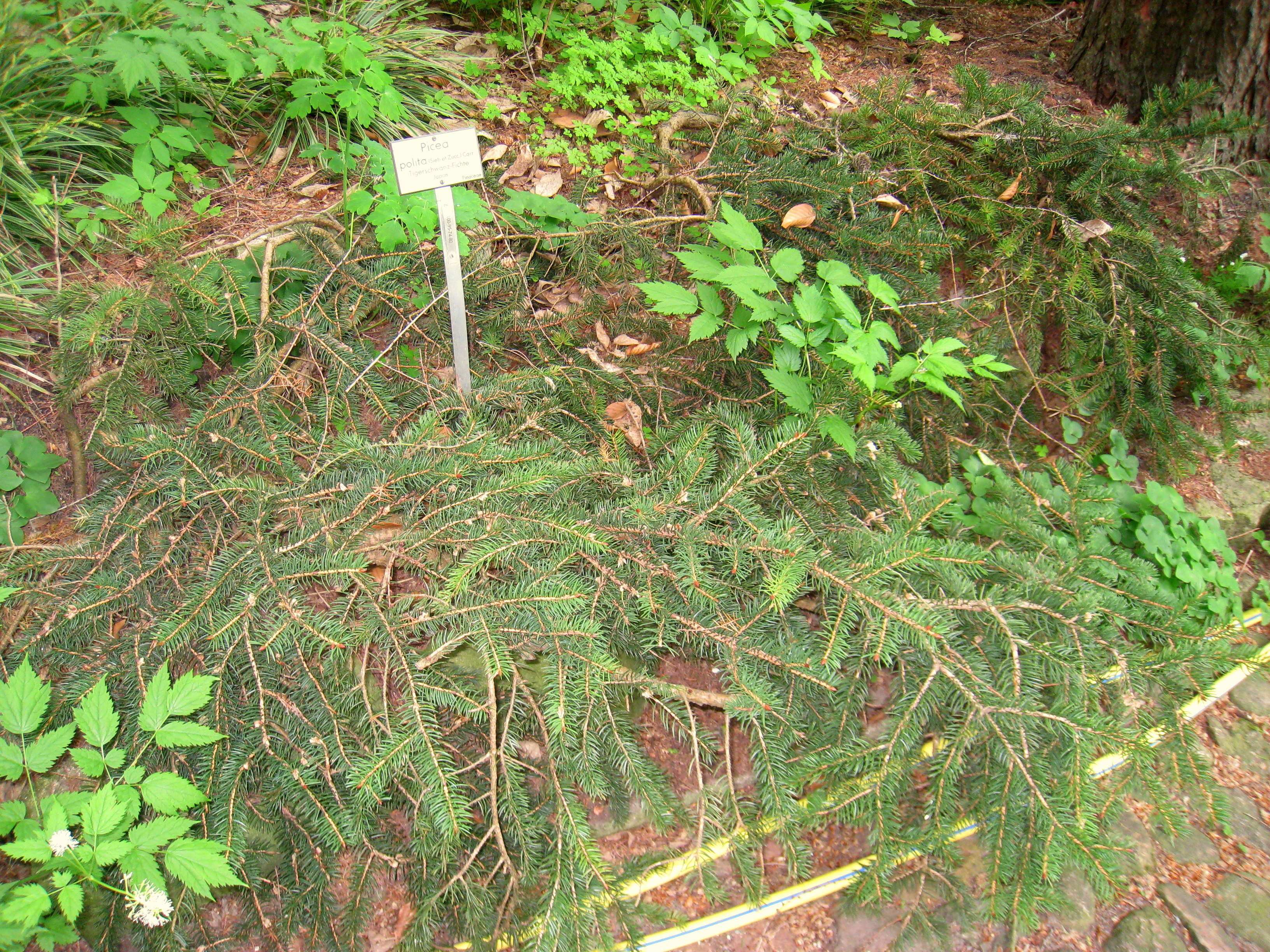 Picea torano (syn. P. polita) specimen in the Botanischer Garten, Berlin-Dahlem (Berlin Botanical Garden), Berlin, Germany.